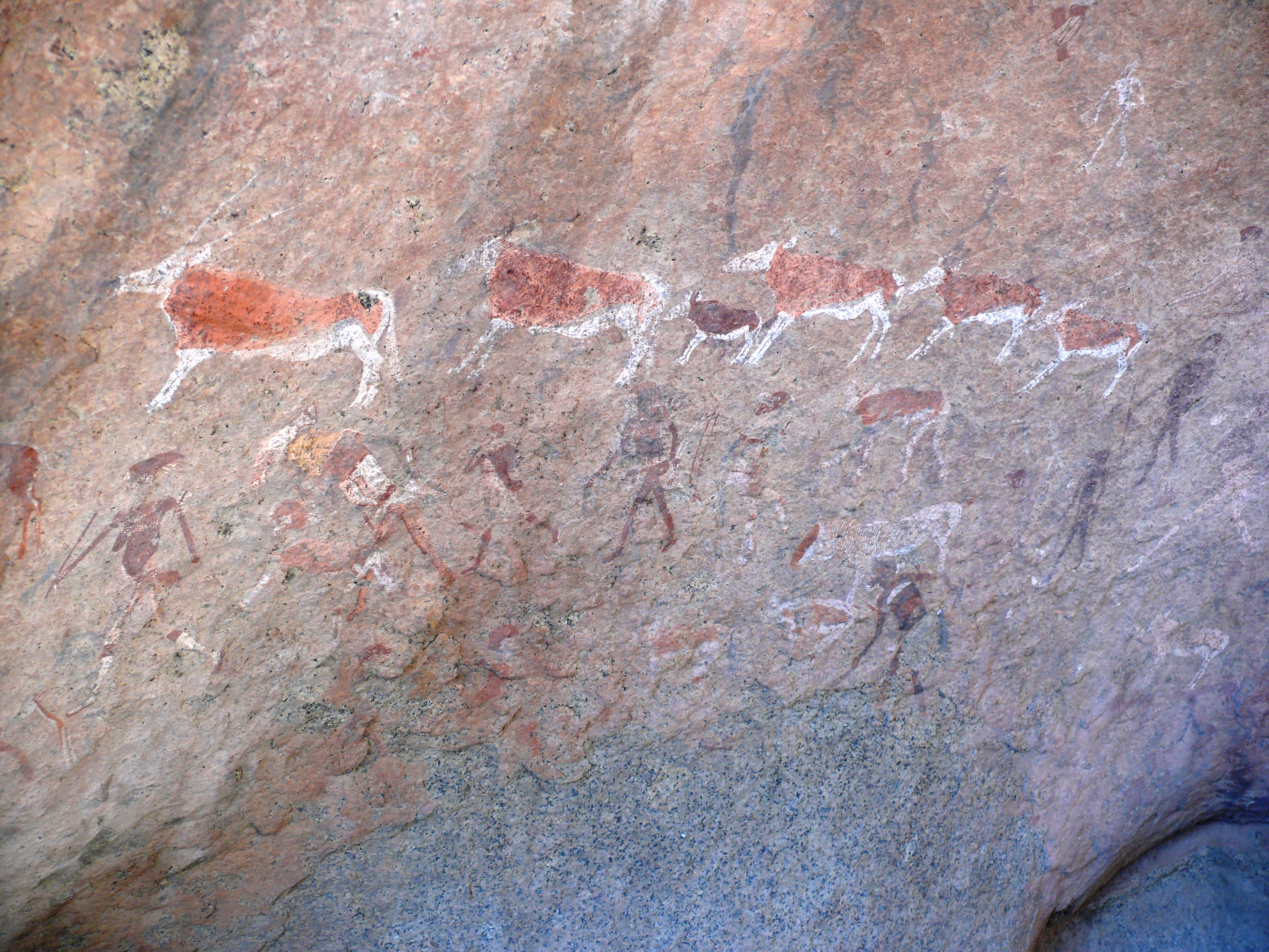 Oryx, White Lady, Brandberg